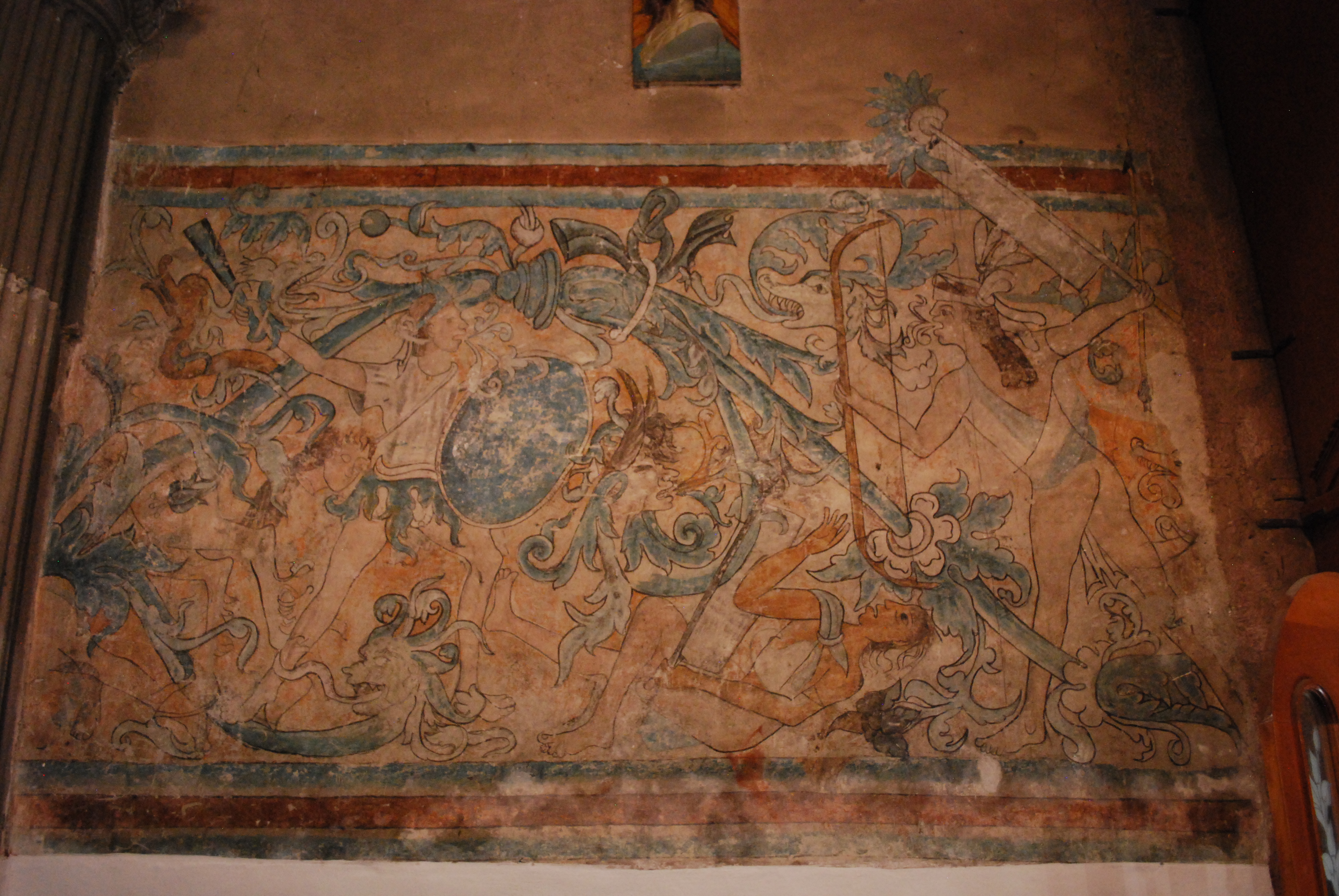 Mural work inside the San Miguel Archangel Church in Ixmiquilpan, Hidalgo, Mexico